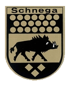 Coat of arms of the municipality Schnega in the district Lüchow-Dannenberg, in Lower Saxony, Germany.